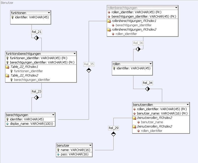 Diagramm of a Database Layout (Example)